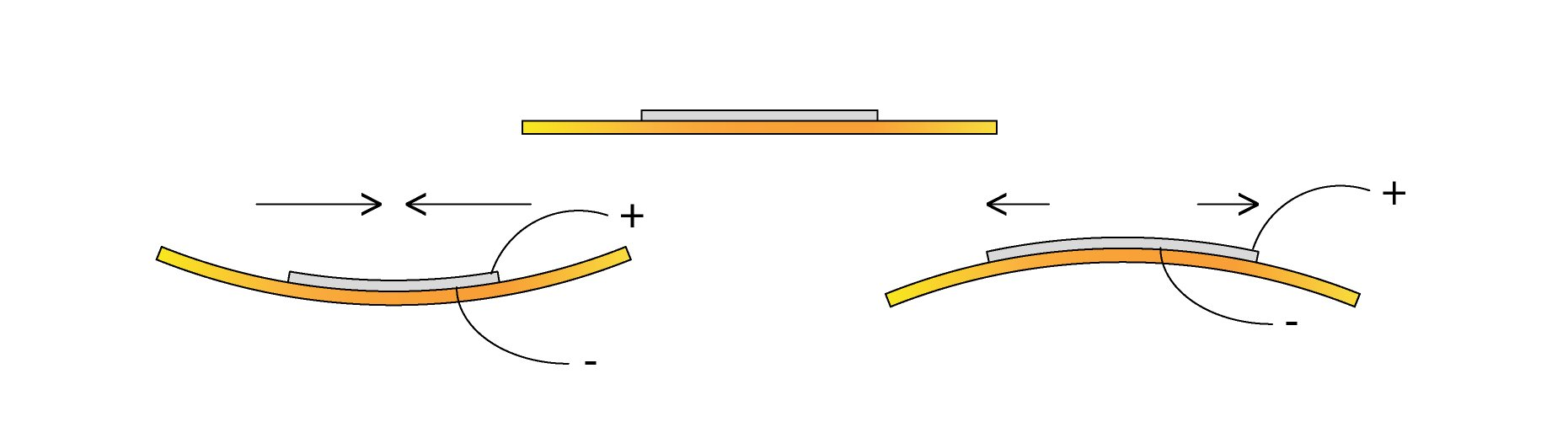 Piezo bending principle